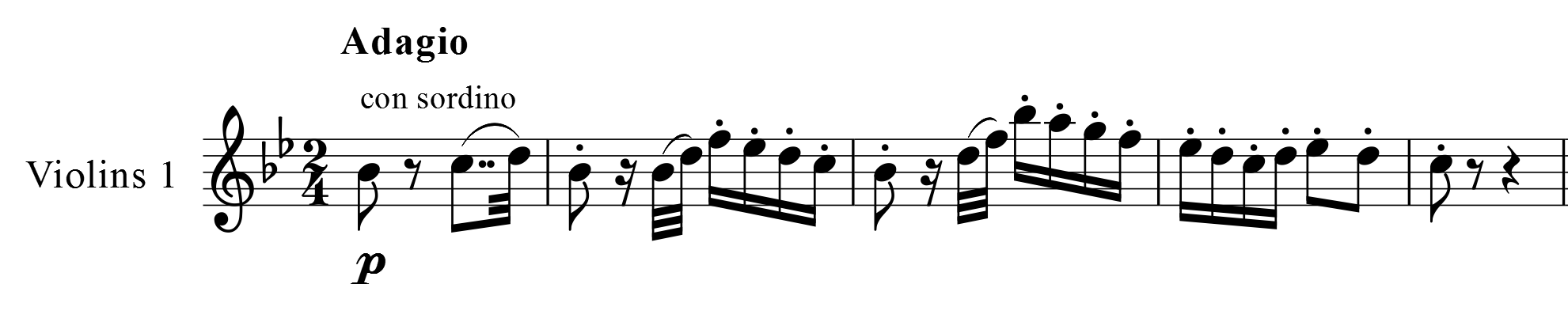 Joseph Haydn, Symphony No. 67, second movement, bar 1-5